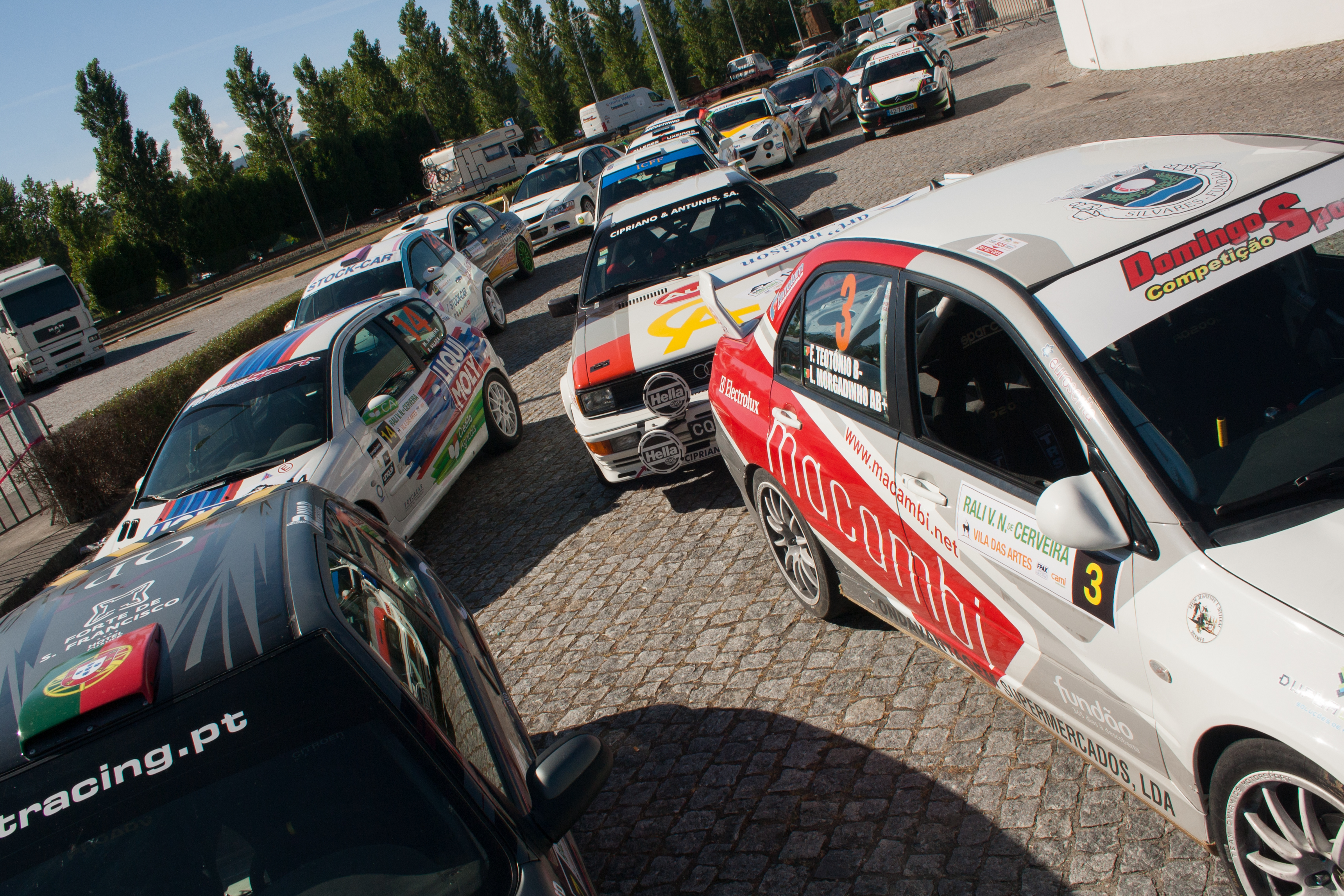 Rali Vila Nova de Cerveira